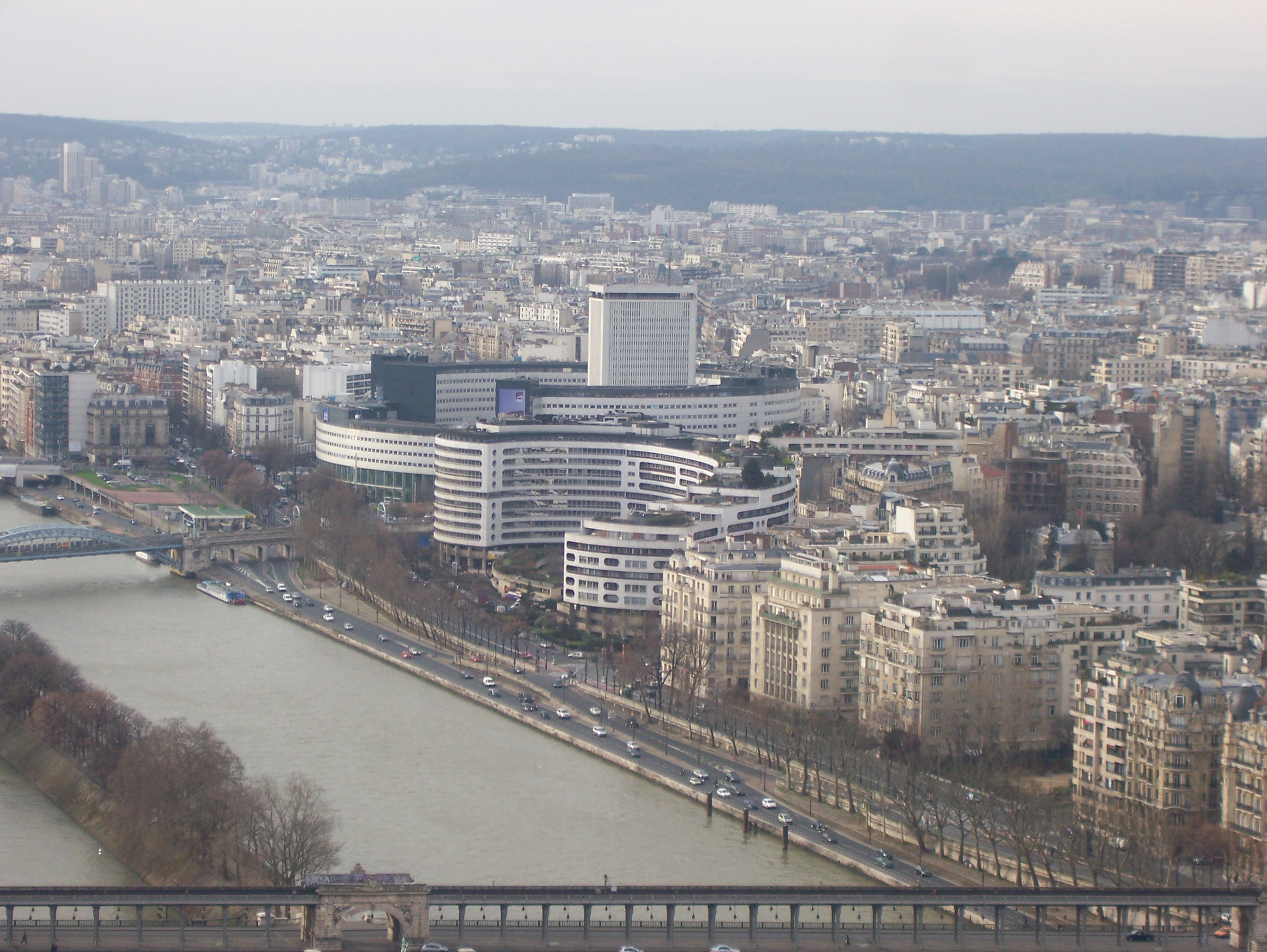 Maison de la Radio as viewed from the second level of the Eiffel Tower.